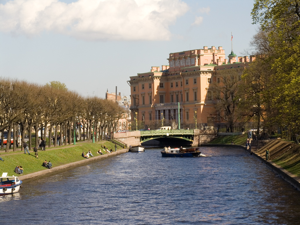 View on St. Michael's Castle, Moika River and First Garden bridge from Second Garden bridge